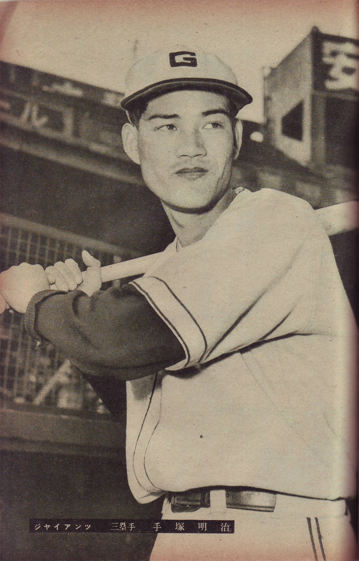 Akiharu Tezuka (Yomiuri Giants). taken in 1950.